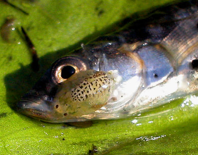 Argulus sp. parasitising stickleback